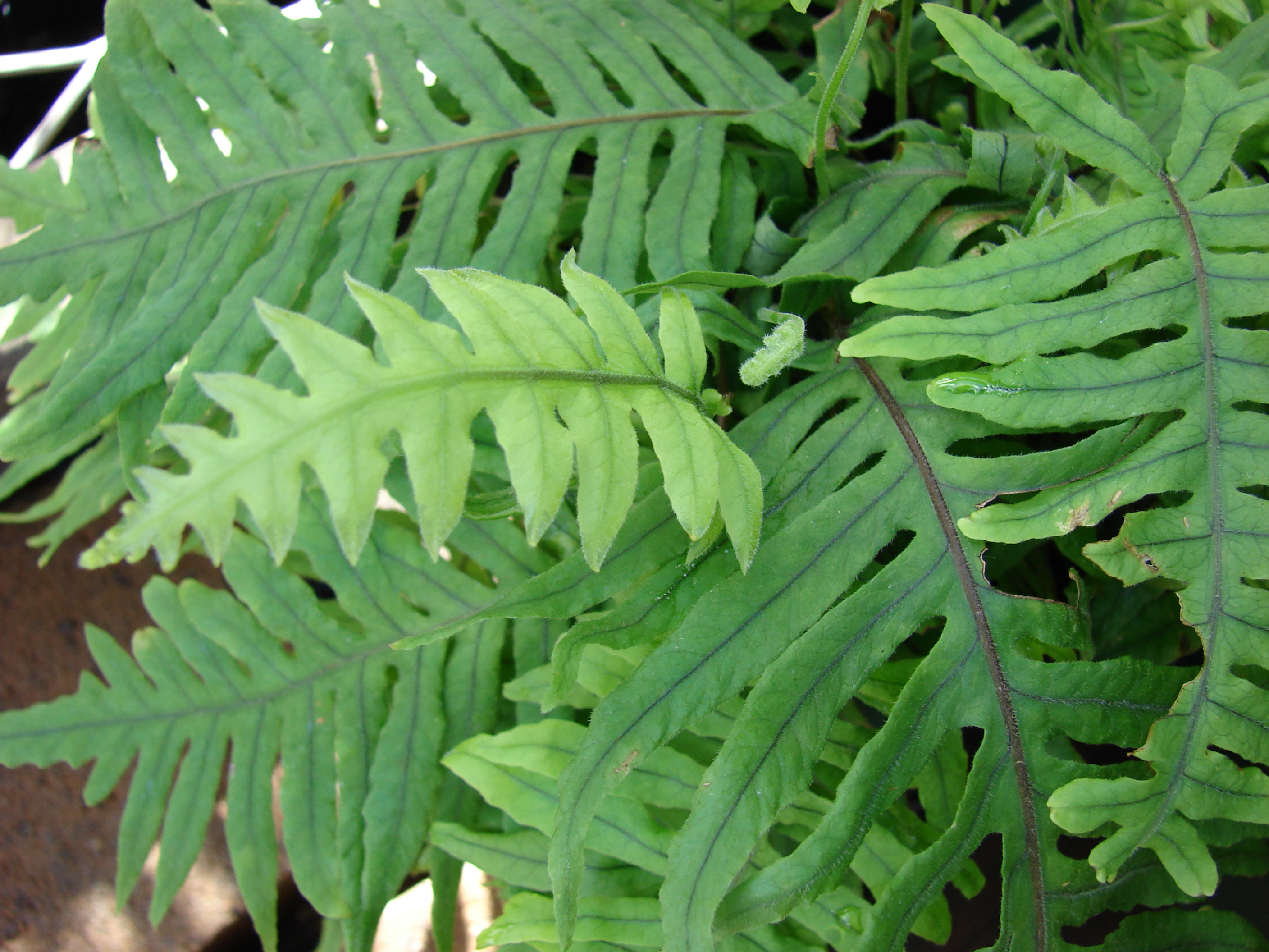 Polypodium formosanum (habit). Location: Maui, Lowes Garden Center Kahului